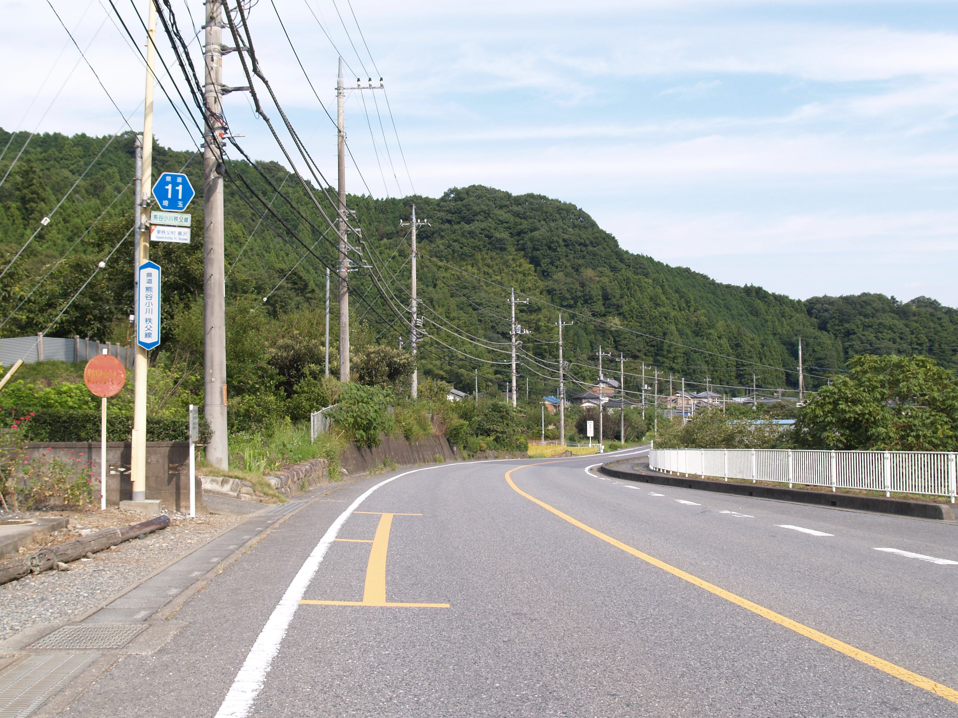 The Saitama Prefectural Road Route 11 in Higashichichibu Village